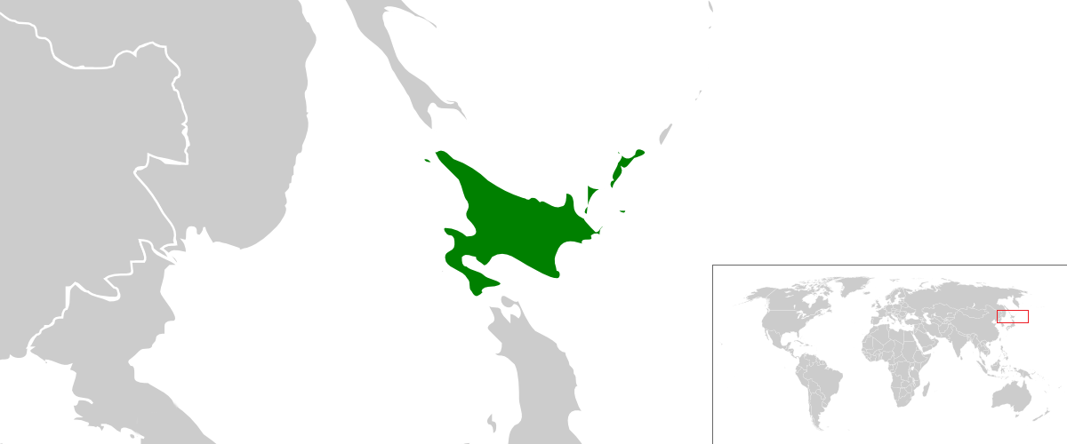 Map of Republic of Ezo